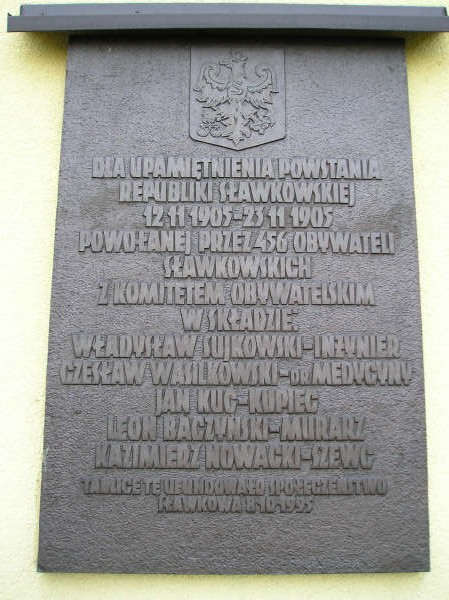 Memorial plaque commemorating the Slawkow Republic proclaimed in 1905, Sławków town hall, Sławków (Poland)